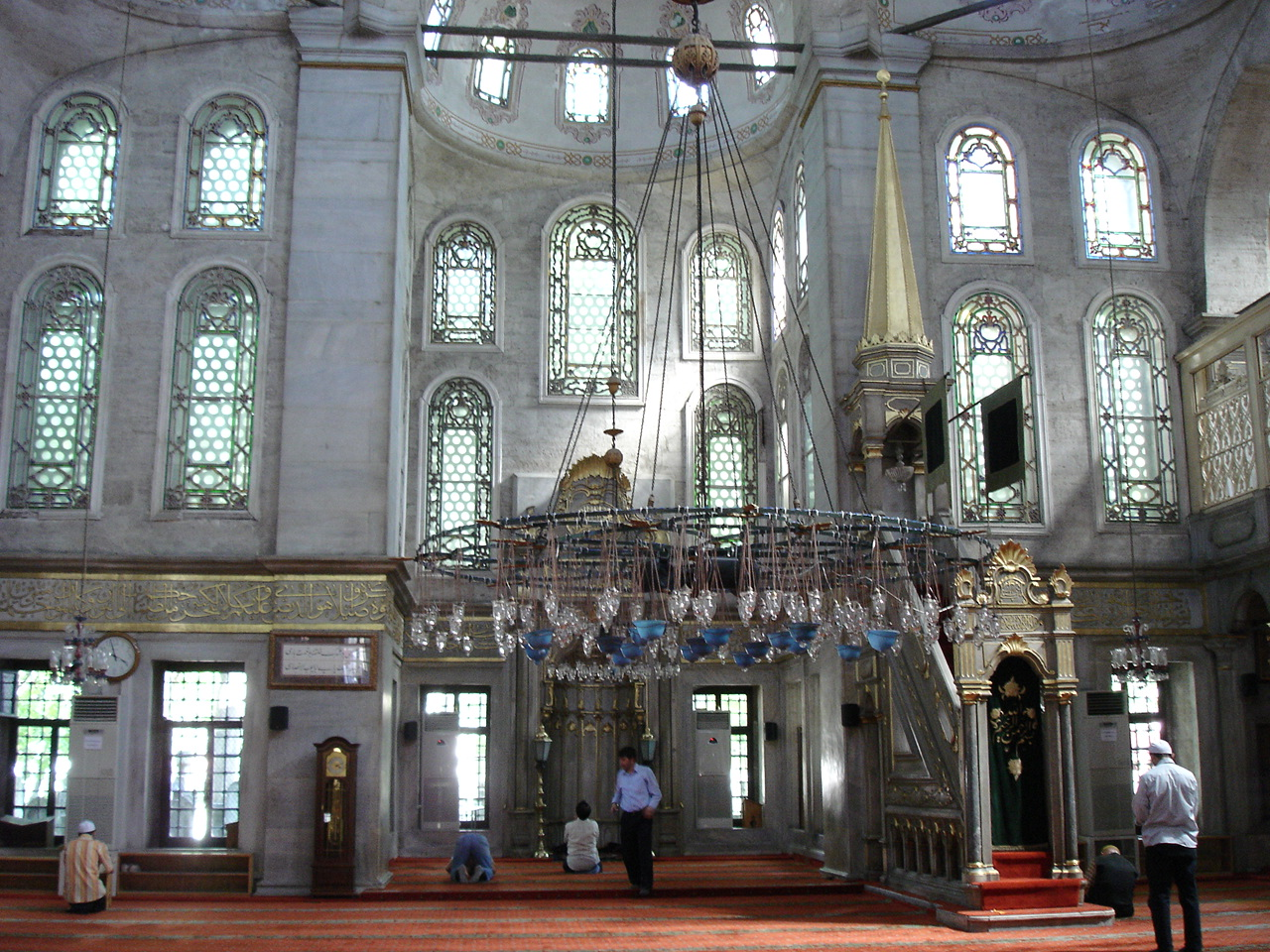 Istanbul - Inside view, with sight of mihrab and minbar, of the mosque in Eyüp. Picture by: Giovanni Dall'Orto, May 30 2006.